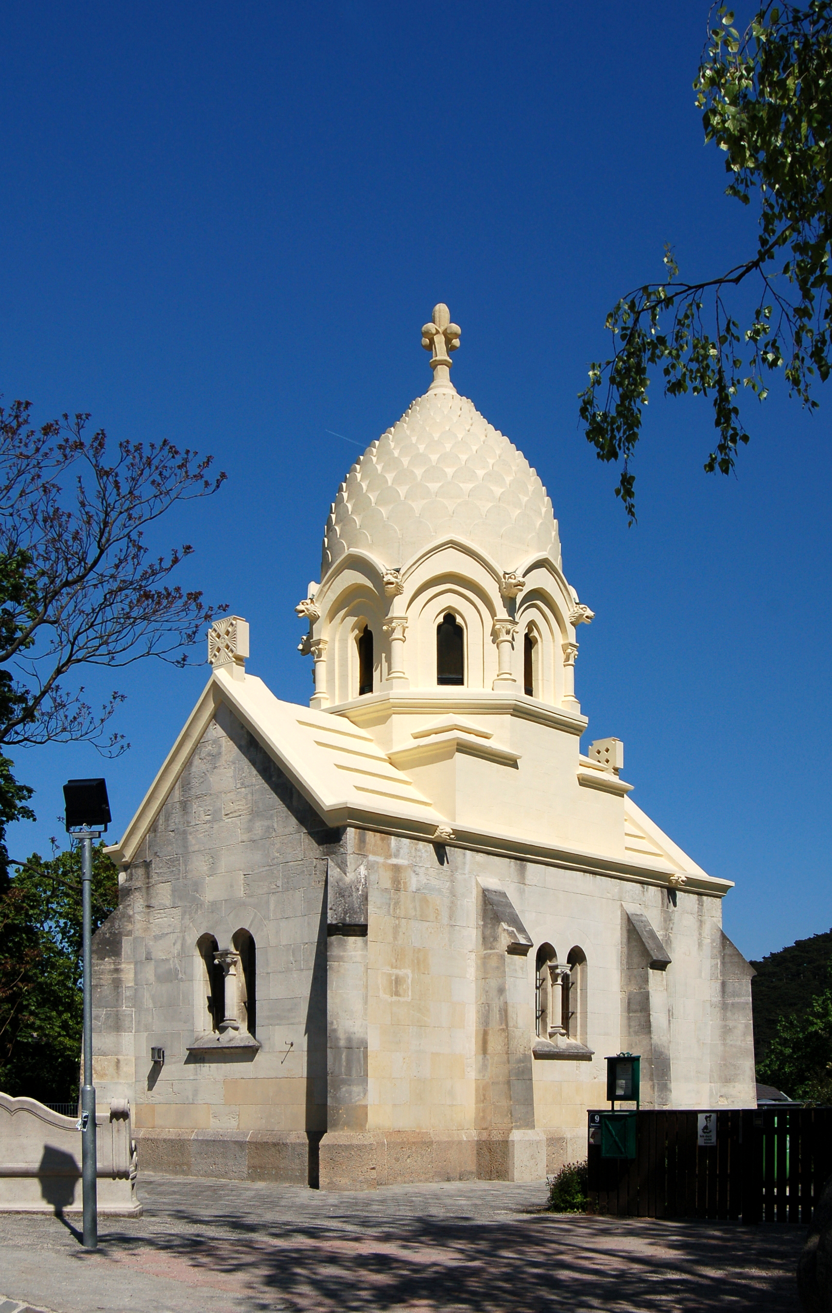 The mausoleum of the Krupp family in Berndorf, Lower Austria, is protected as a cultural heritage monument.